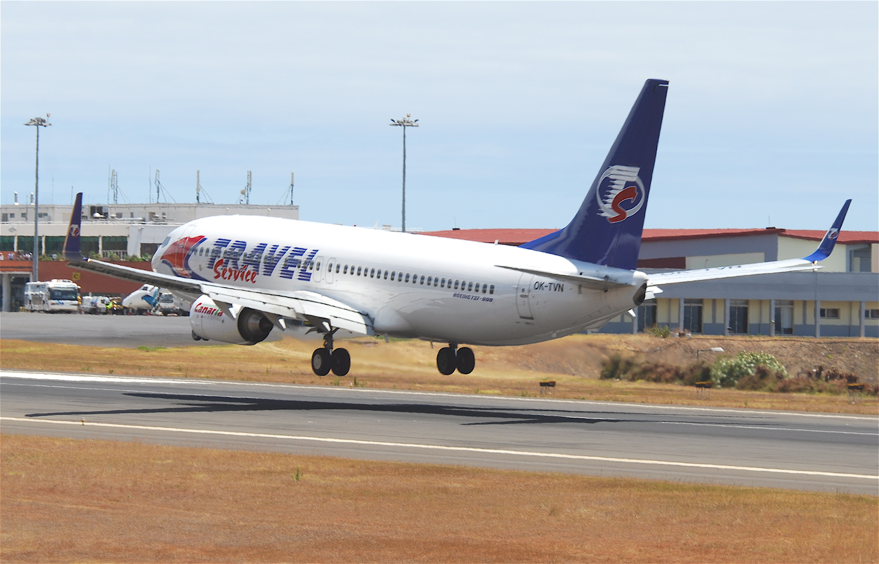 Travel Service Boeing 737-8BK; OK-TVN@FNC;12.07.2011/607aq